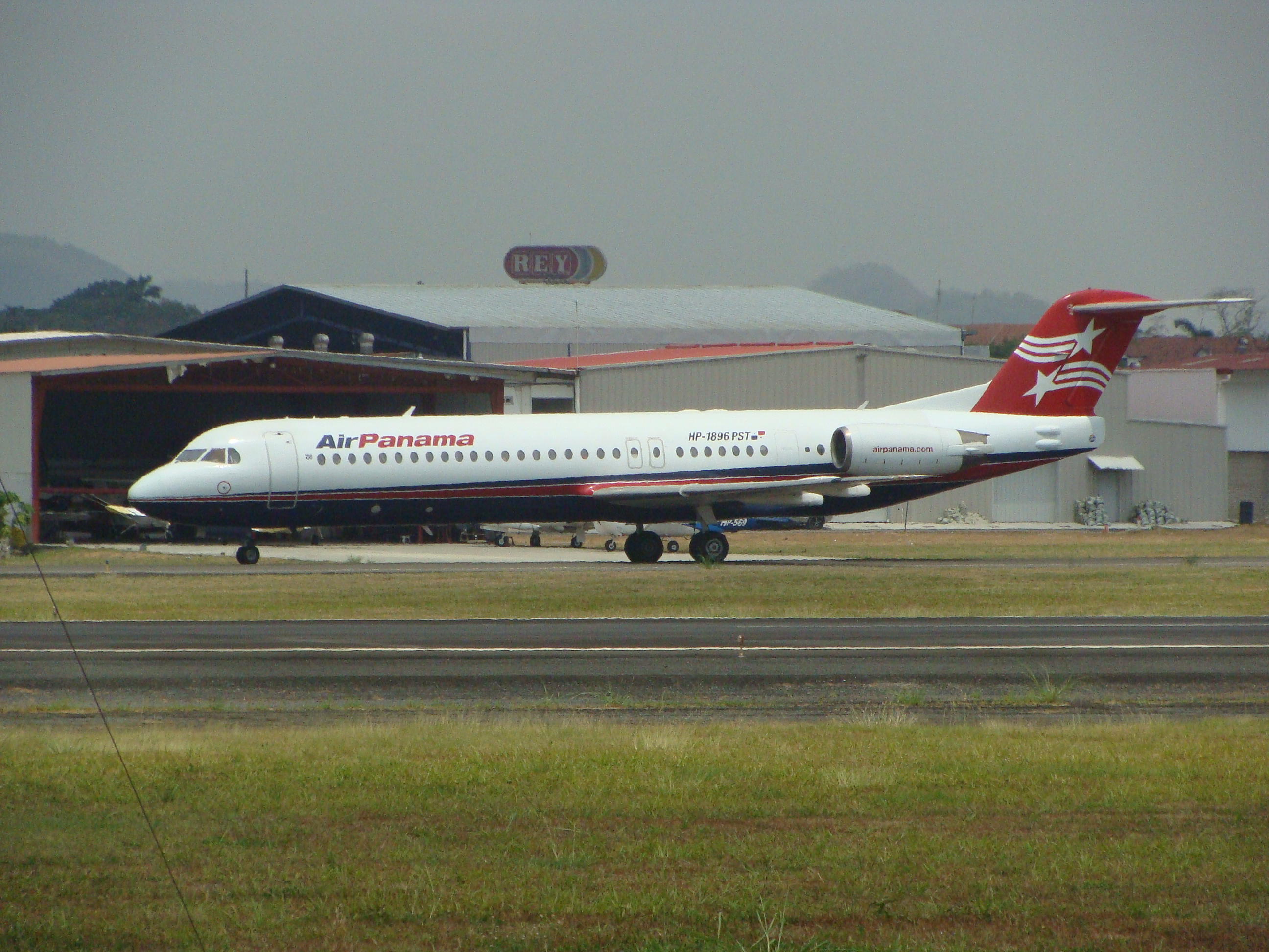 An Air Panama Fokker 100 taxiing towards runway 36/18 for departure.